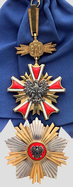 The Order of Merit of the People's Republic of Poland (Order Zasługi Polskiej Rzeczypospolitej Ludowej) is a Polish order awarded to those who have rendered great service to the Polish nation. It is granted to foreigners or Poles resident abroad and as such is a traditional 'diplomatic order'. It was created in 1974.